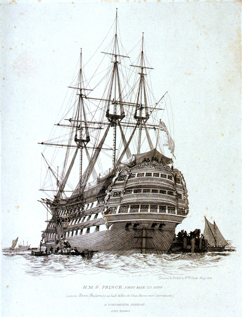 H.M.S. Prince First Rate 110 Guns (with the Stern Balconies, as built before the close sterns were introduced) in Portsmouth Harbour Jury rigged Print